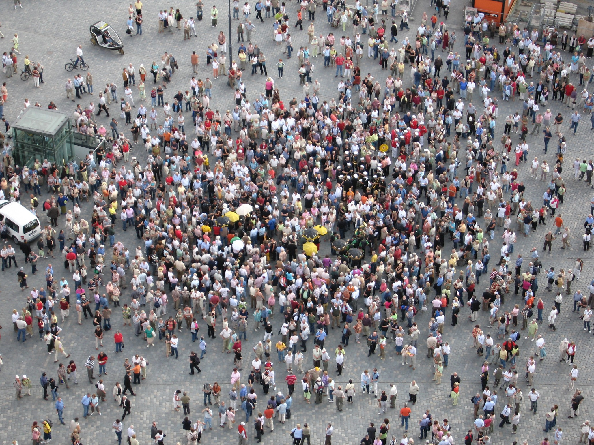 Cluster of people